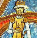 Charles I of Hungary